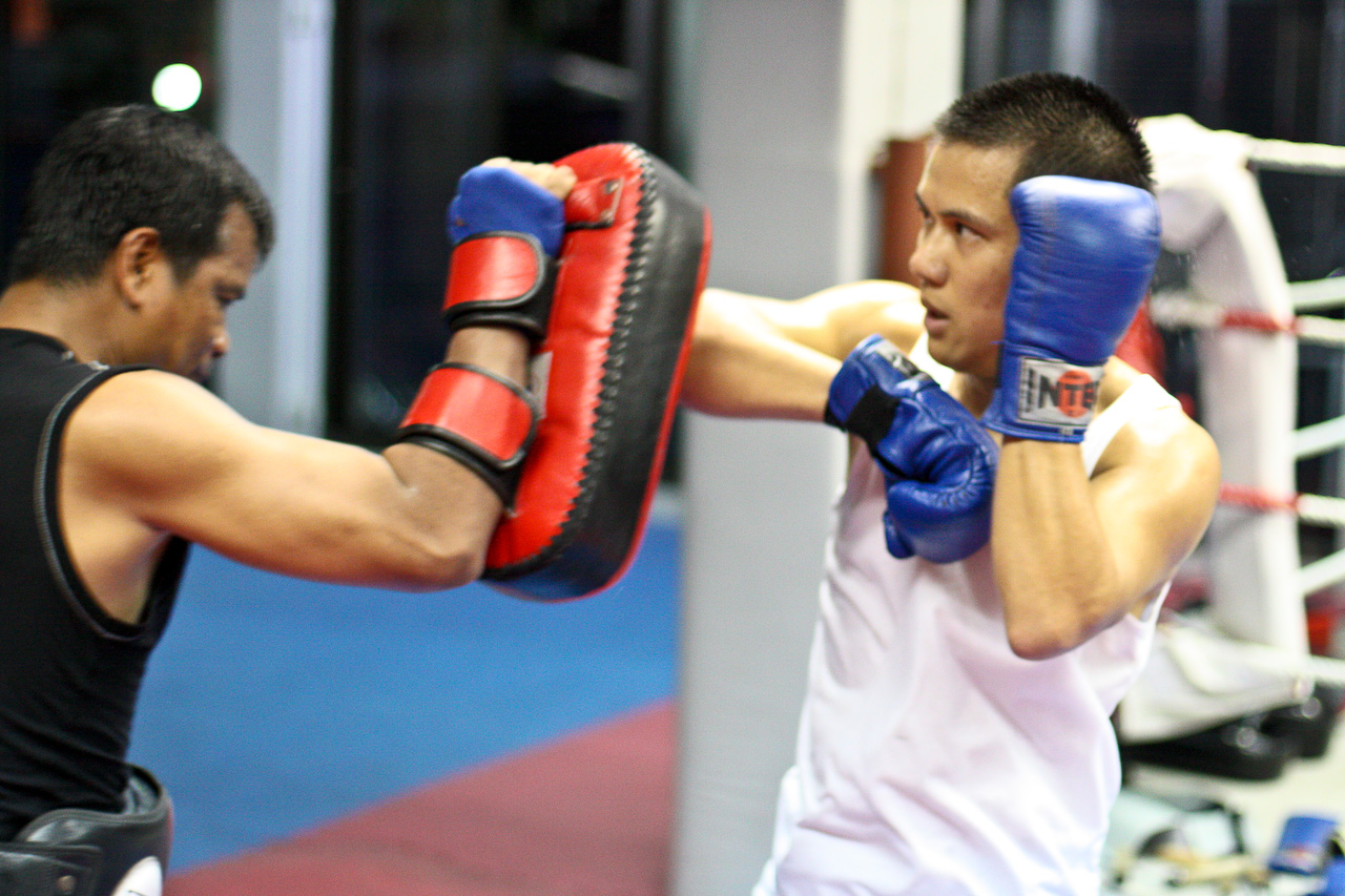 Teacher and student practicing Muay Thai at Chacrit Muay Thai School, Chacrit Muay Thai School, Central Bangkok, Thailand.